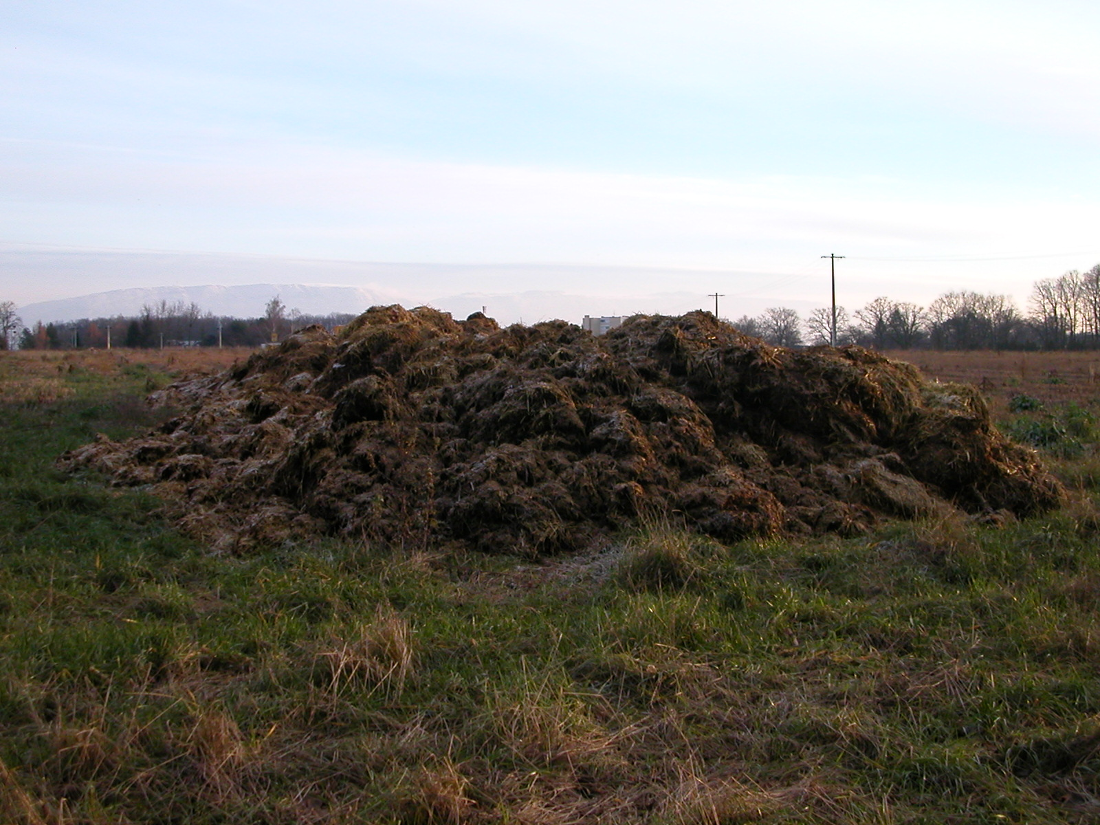 Manure in Geneva, Switzerland. (Original note: "Big Pile of Steaming Dung. Ah, the smell of fresh manure in the morning! ")